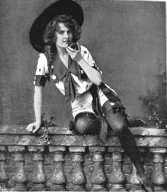 Photo taken in 1901